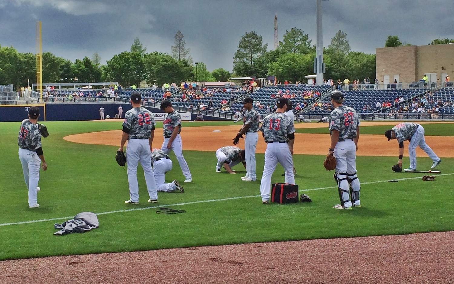 Players from the Nashville Sounds warming up before a game at First Tennessee Park on April 19, 2015